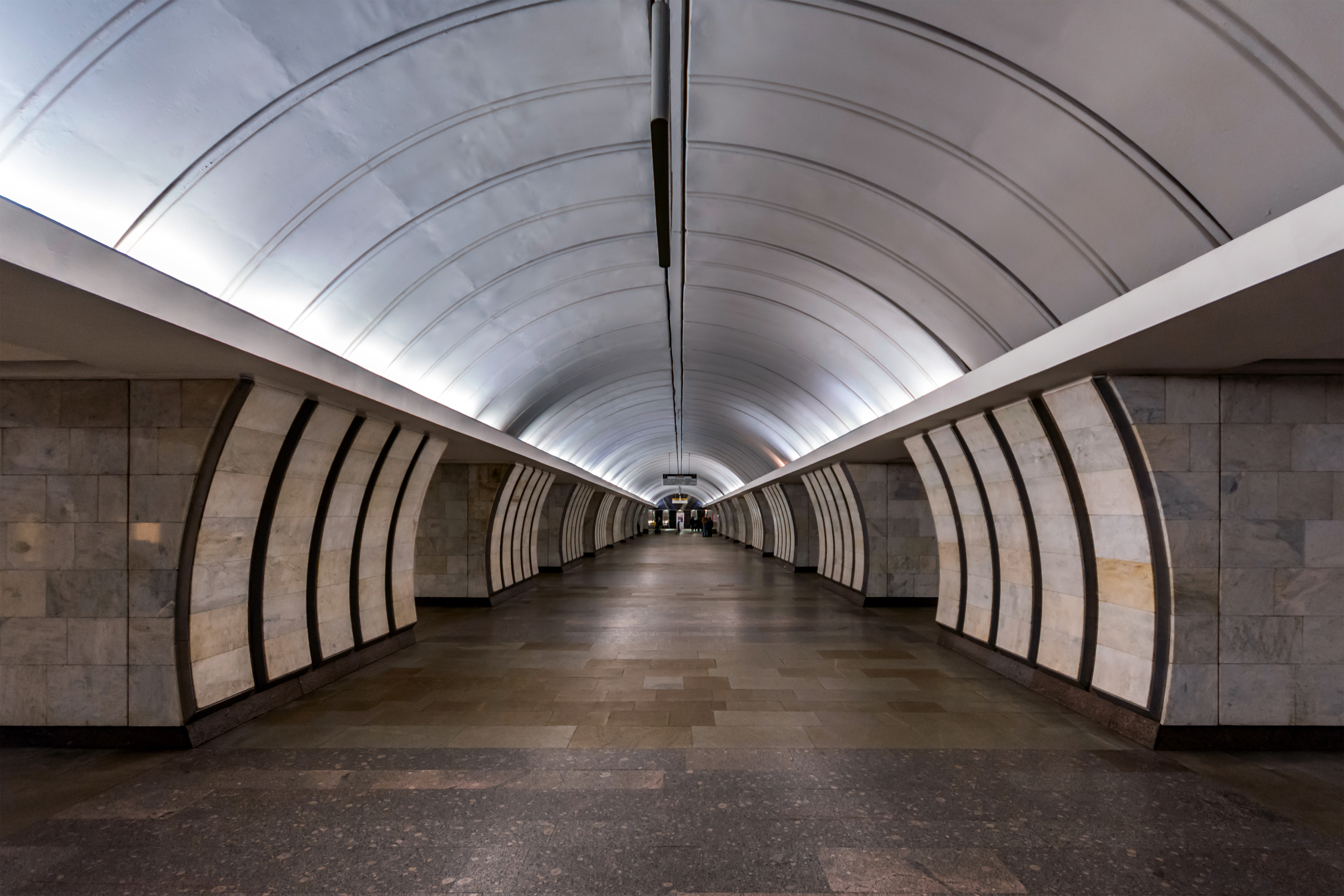 Savyolovskaya Station of Moscow Subway